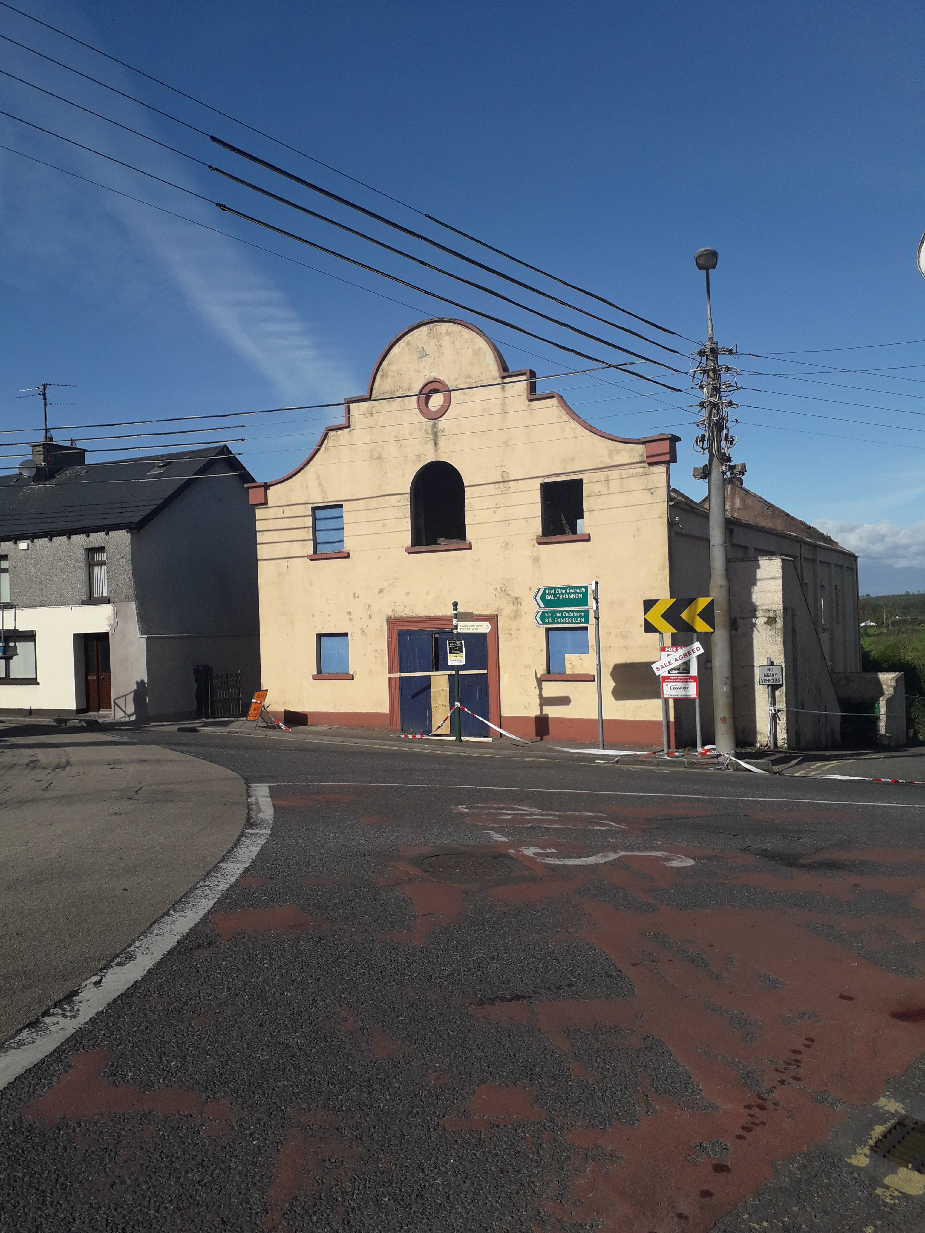 County Cavan, Erne Palais Ballroom. Wikidata has entry Q55049023 with data related to this item.